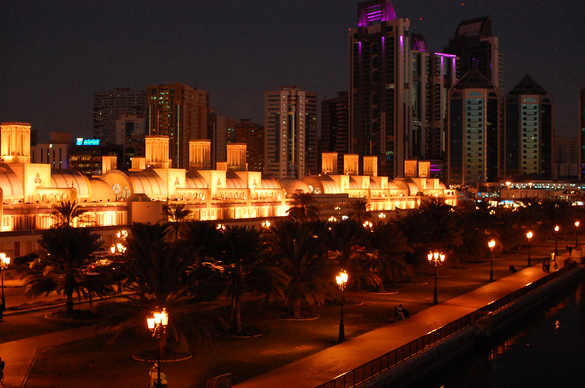 Souq Al Markaz - sharjah